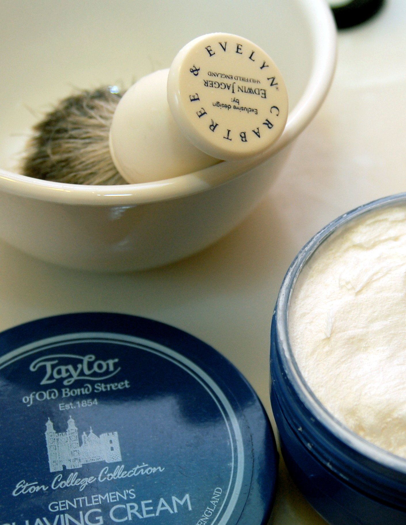 Eton College shaving cream by Taylor of Old Bond Street